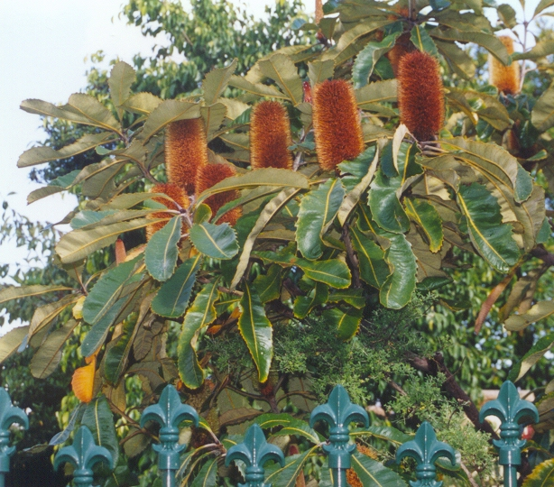 Banksia robur, over the garden fence, Concord, NSW - photo, Cas Liber